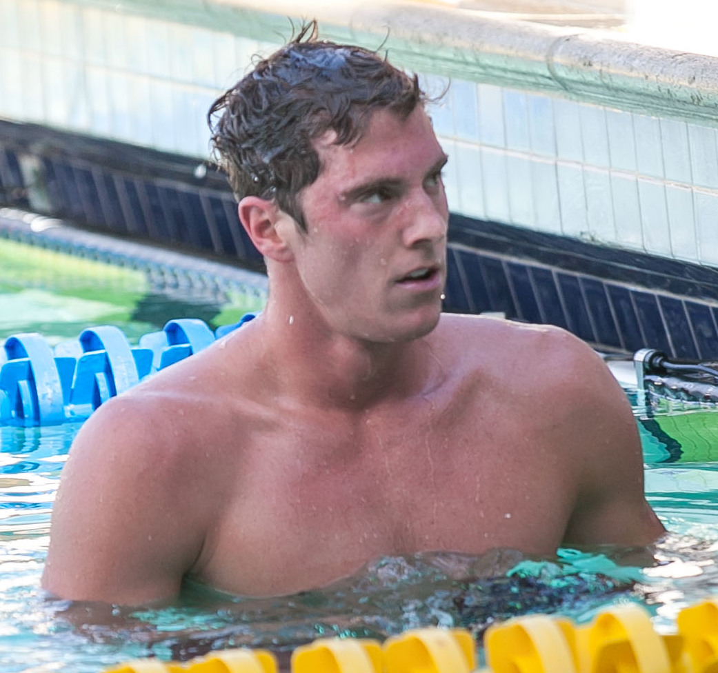 Conor Dwyer after 200 free (finished 2nd)